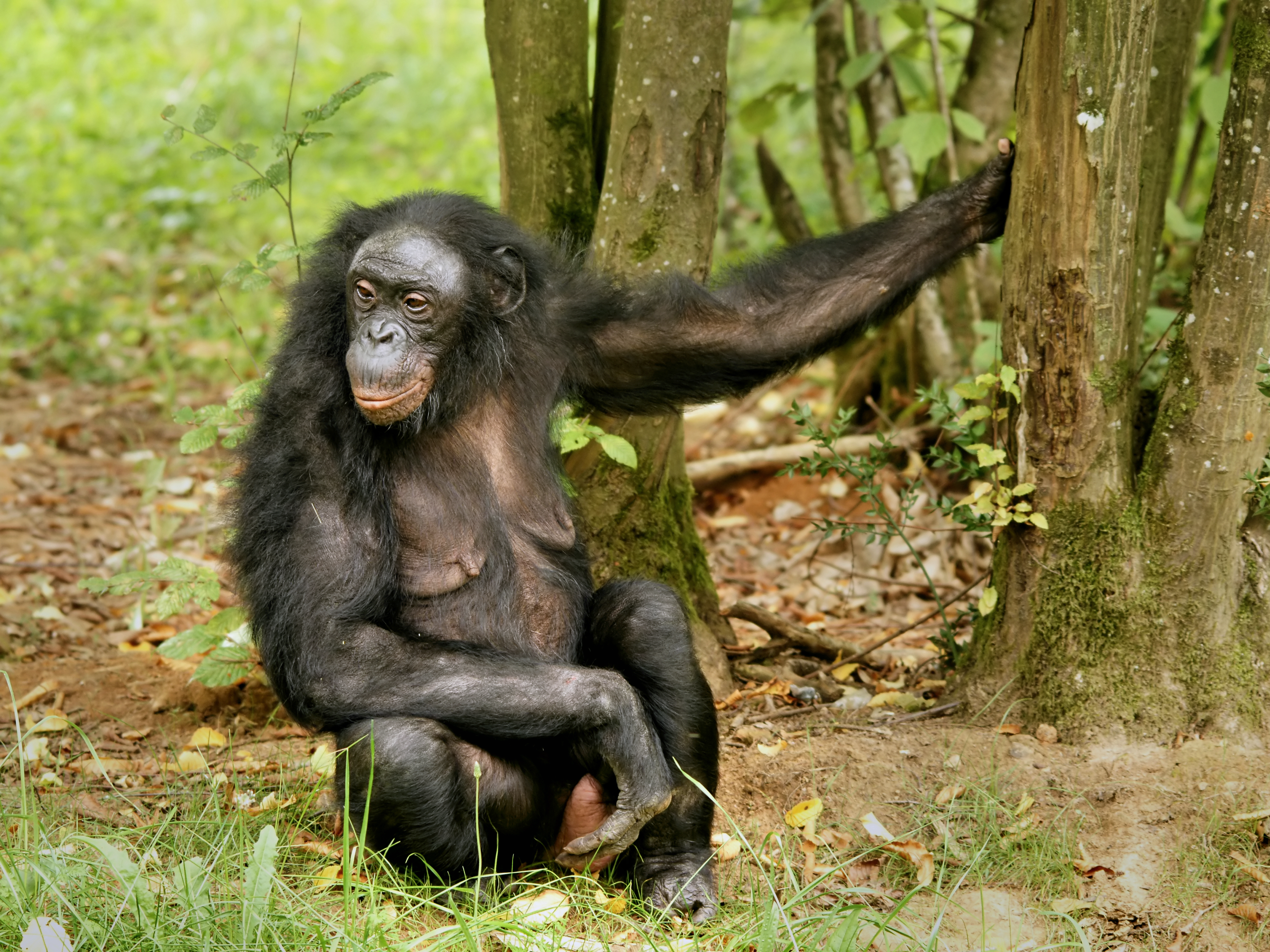 Female Bonobo at La Vallée de Singes, at Romagne (Vienne, Poitou-Charentes), France.